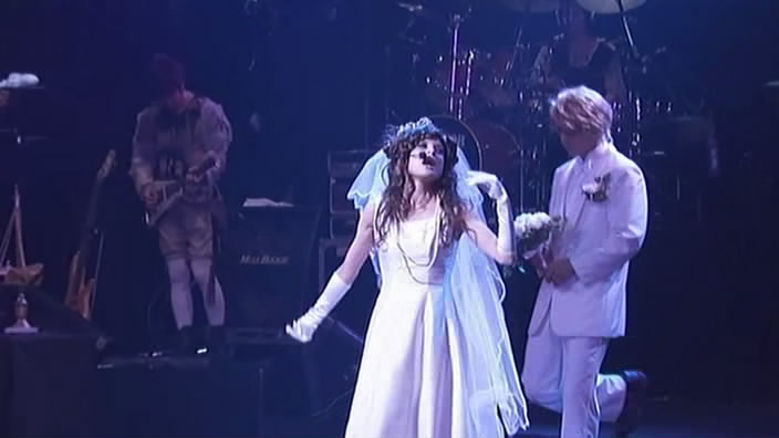 Screenshot from the live performance "Rakuen parade e youkoso!" based in the history from Sound Horizon's 4th Story CD "Elysion". Scene from the song ERU no Tenbin (The balance of "El")